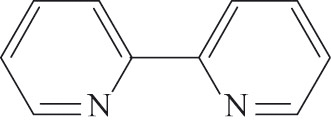 2,2-bipyridyl (bipy) - chromophore, widely used in supramolecular photochemistry.